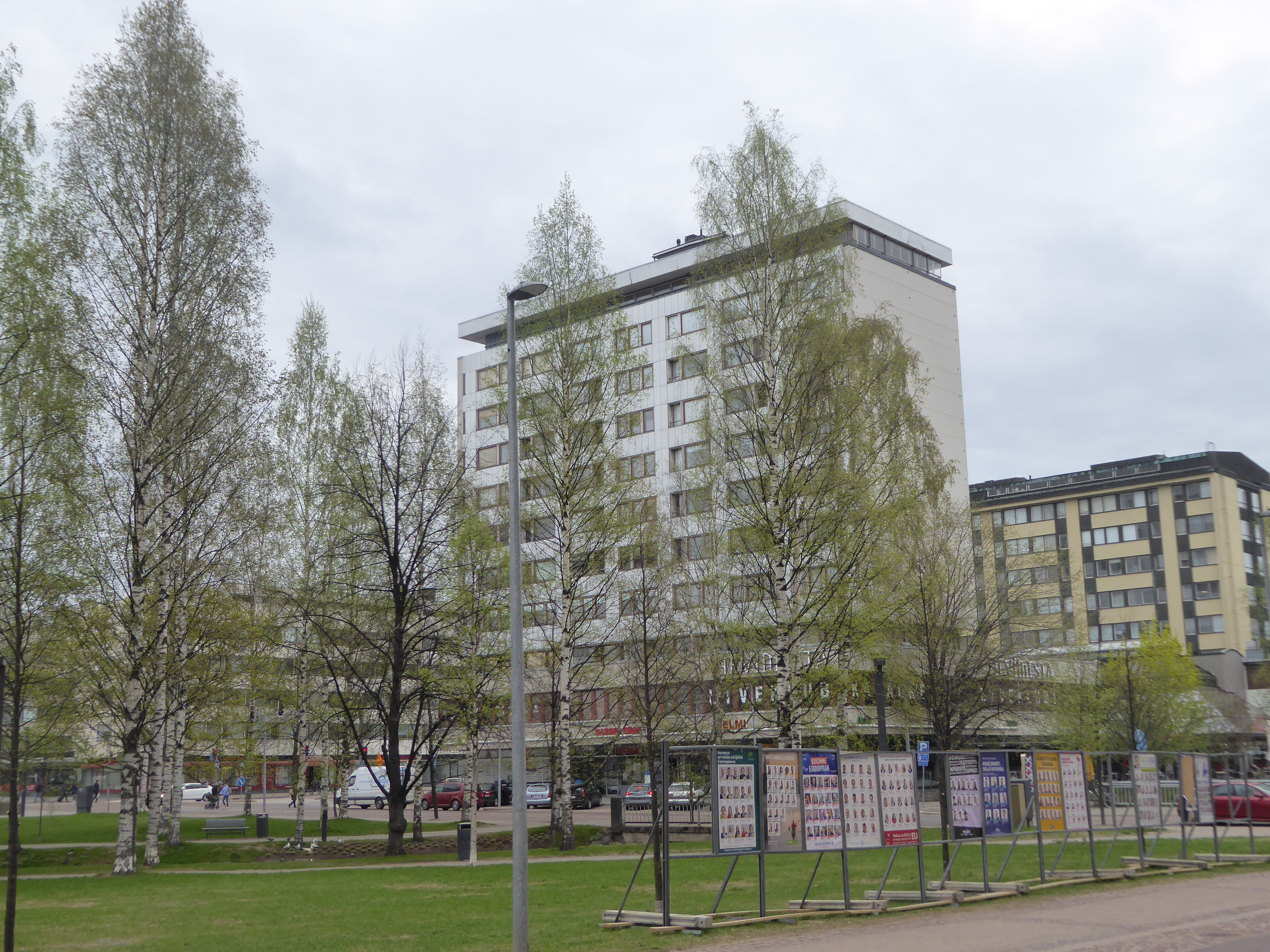 Views of Oulu